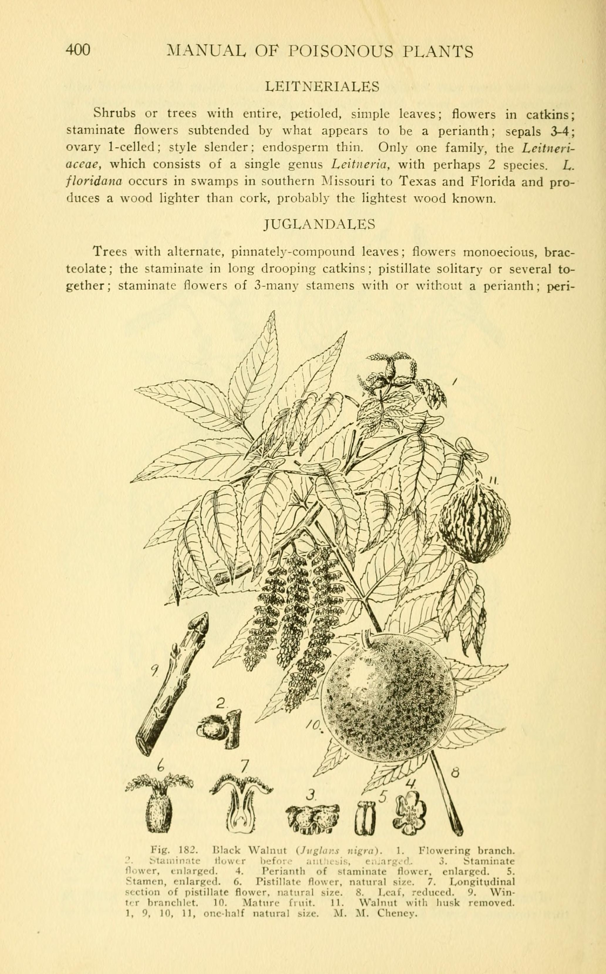 A manual of poisonous plants : chiefly of eastern North America, with brief notes on economic and medicinal plants, and numerous illustrations / by L. H. Pammel.